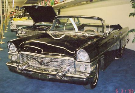 GAZ Chaika parade car. The cabriolet/convertible model was made in 1961 and 1962 for official parades in the Soviet Union. (Delete all revisions of this file) (cur) 02:48, 5 December 2003 . . Tcotrel (Talk) . . 443x306 (31371 bytes) (circa 1960 ZIL Chaika parade car)